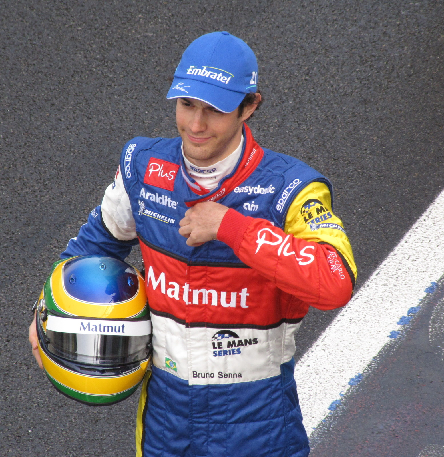 Bruno Senna preparing for an foto session at the 1000 km of Spa 2009.